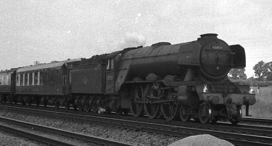 A3 class Pacific locomotive 60059 Tracery on a Pullman train, photographed near Huntingdon, Summer 1962